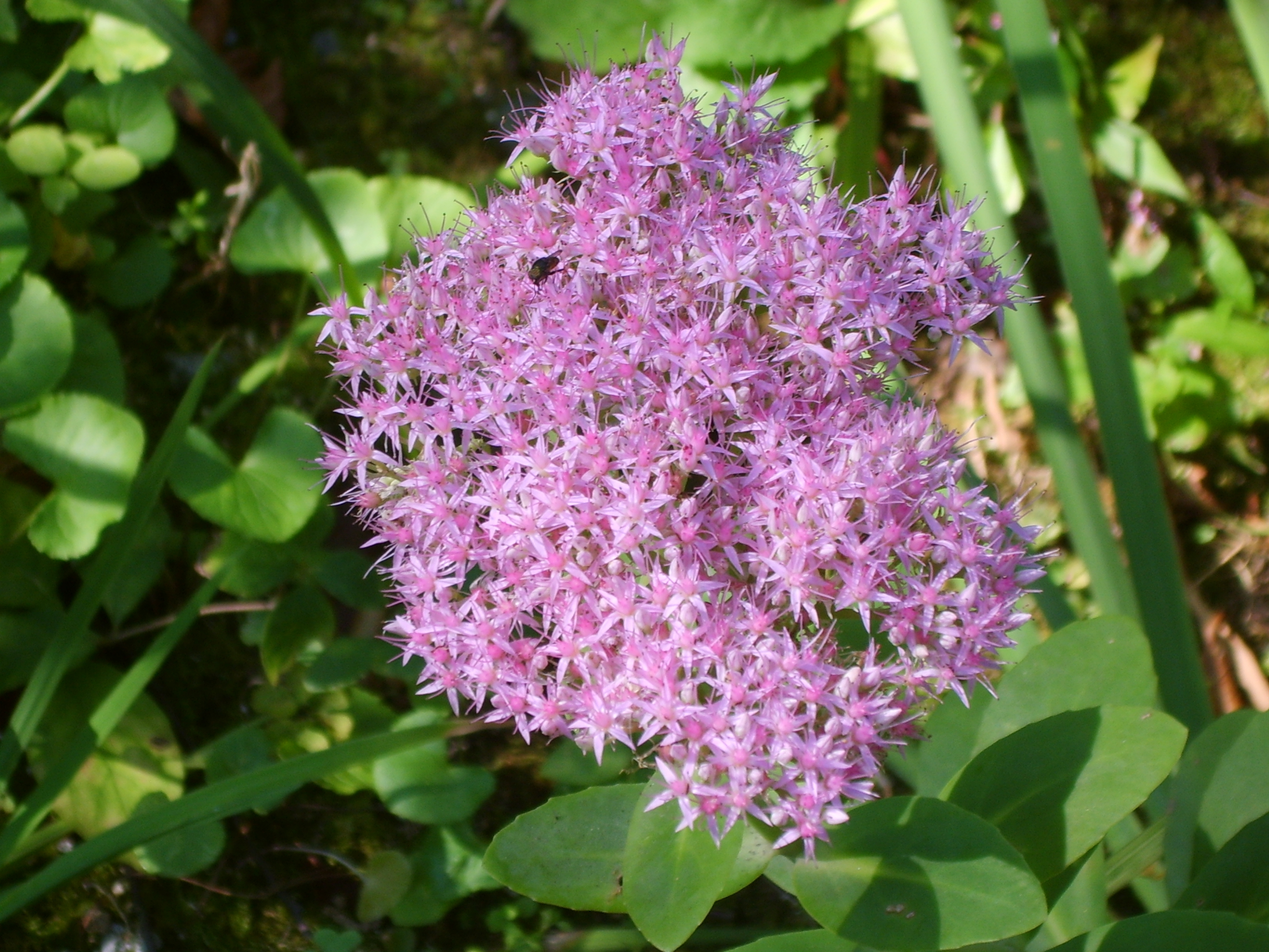 Hylotelephium spectabile in Jeondeungsa, Ganghwa Island